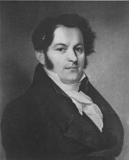 Prof. Dr. Rudolf Henzi, 1794—1829, ordinary Professor at University Dorpat während eines Urlaubes in Bern 1827. Oil on Canvas, painted by the Swiss painter Franz Josef Menteler (1777–1833).